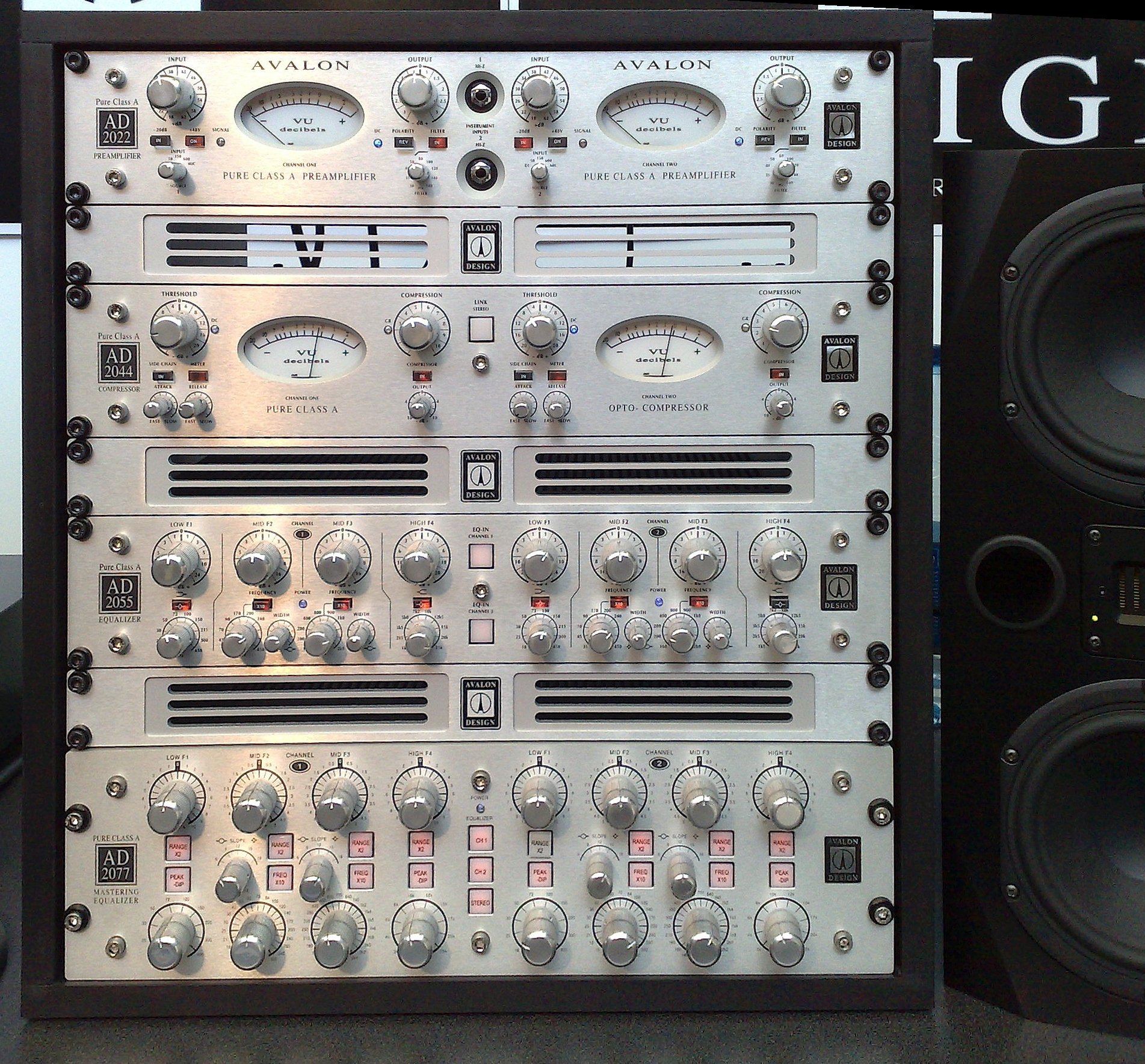 AVALON DESIGN Avalon AD2022 Pure Class A Dual-Mono Microphone Preamplifier Avalon AD2044 Pure Class A Opto-Compressor Avalon AD2055 Pure Class A Equalizer Avalon AD2077 Pure Class A Mastering Equalizer Mastering Eq's, great pre-amps and the like.